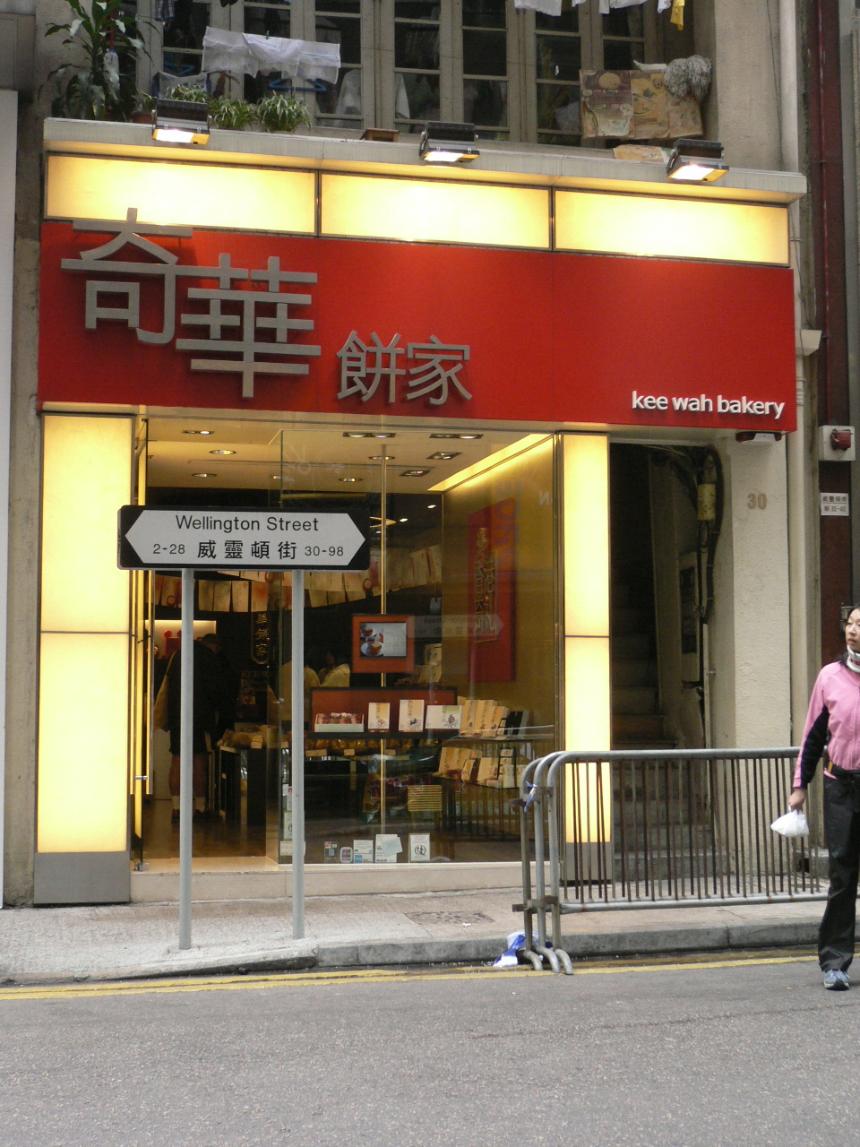 A Kee Wah Bakery (奇華餅家) store located at Wellington Street, Central, Hong Kong.